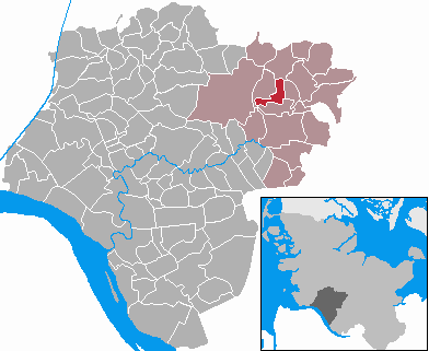 This map shows the area of the municipality Oeschebüttel in the Kreis (district) Steinburg, Schleswig-Holstein, Germany.